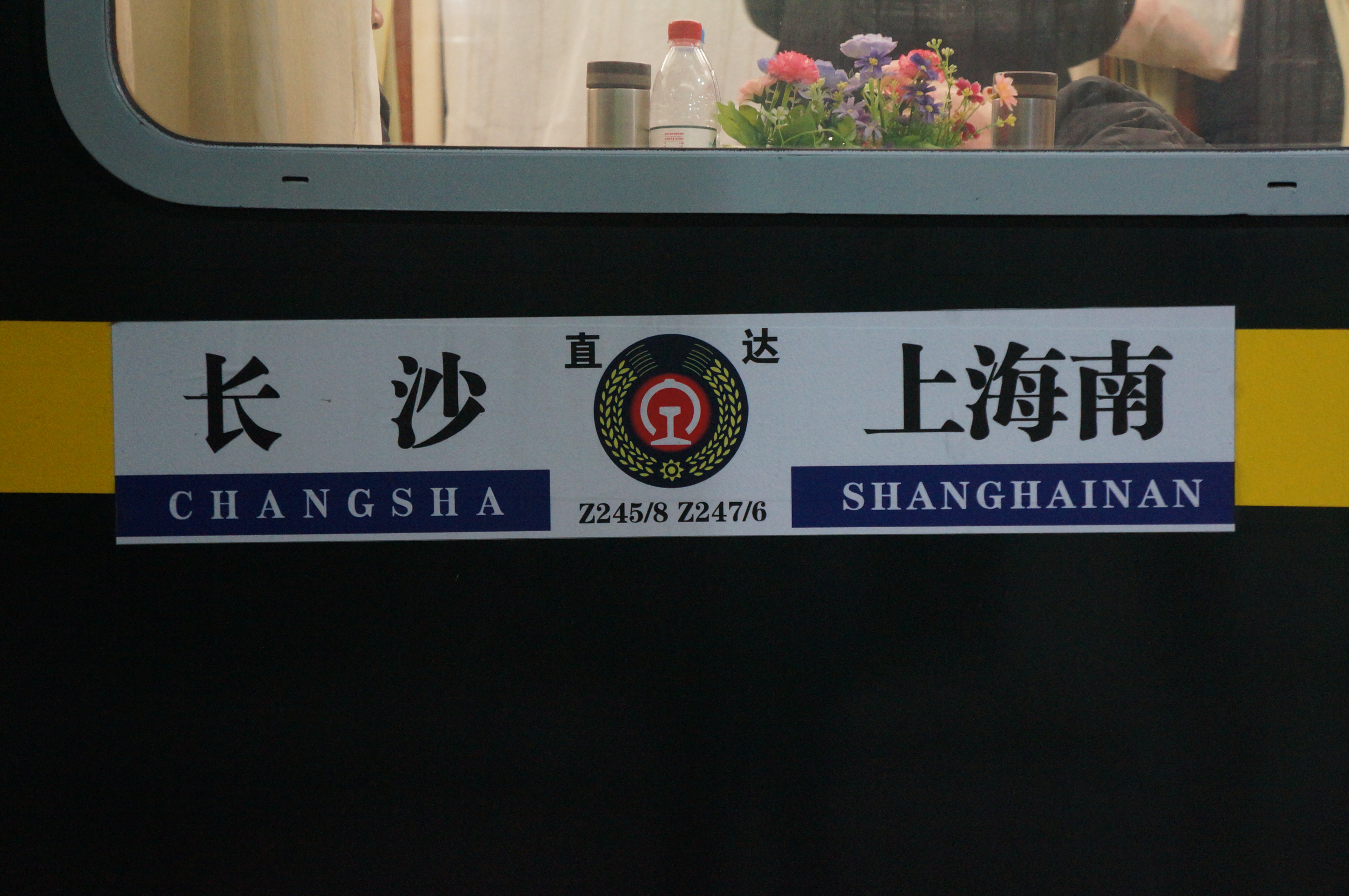 Z245 6 7 8 infoboard in 201712